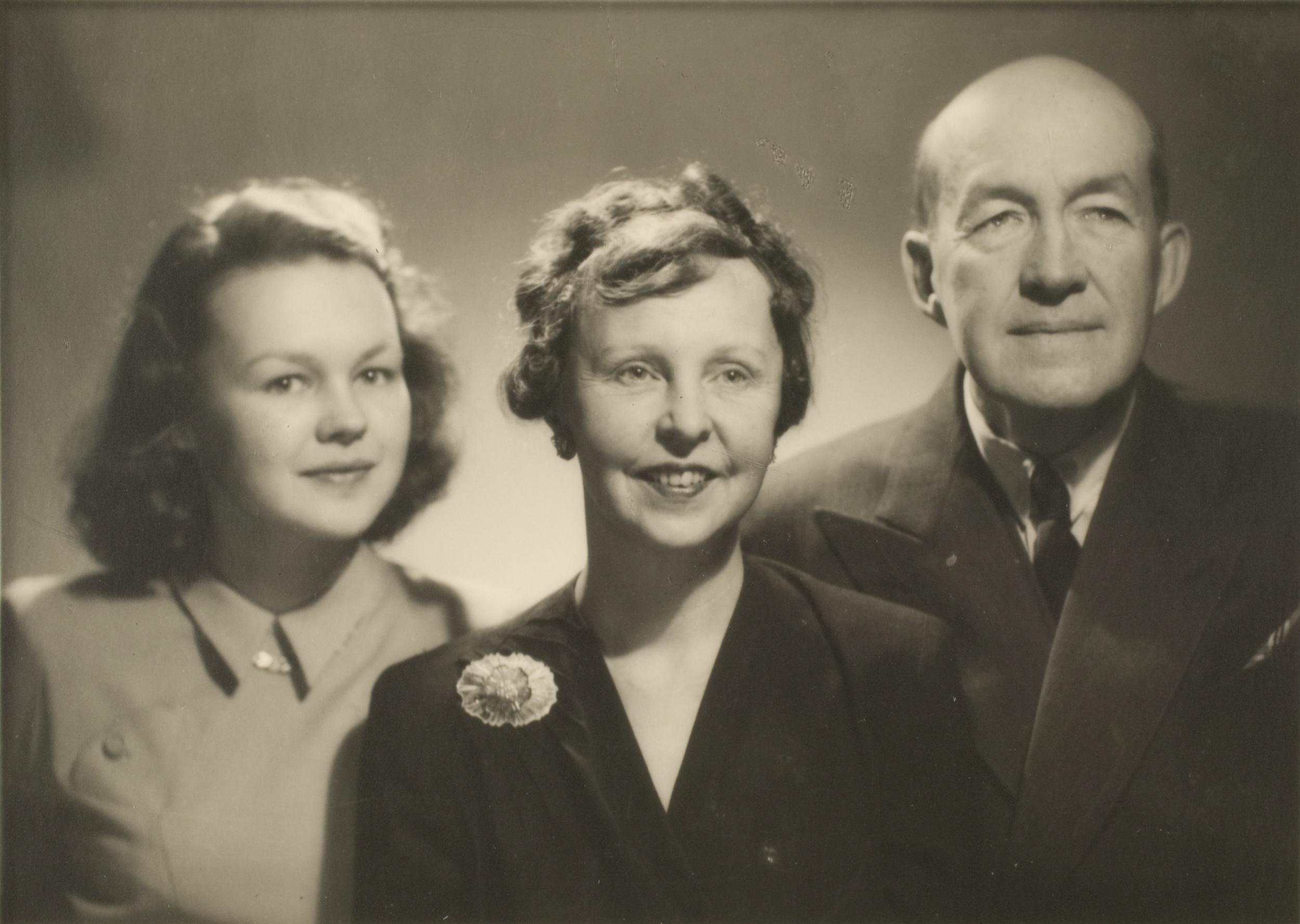 Photograph of the Finnish artist family: Maria Christina Snellman (1928–), Greta Lisa Jäderholm-Snellman (1894–1973), and Eero Snellman (1890–1951).